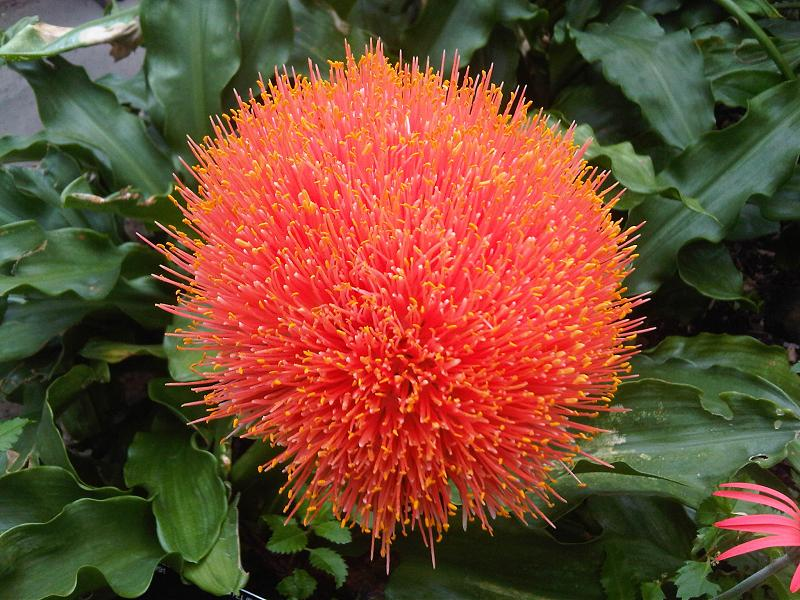 Scadoxus puniceus in Kew Gardens, London, England.